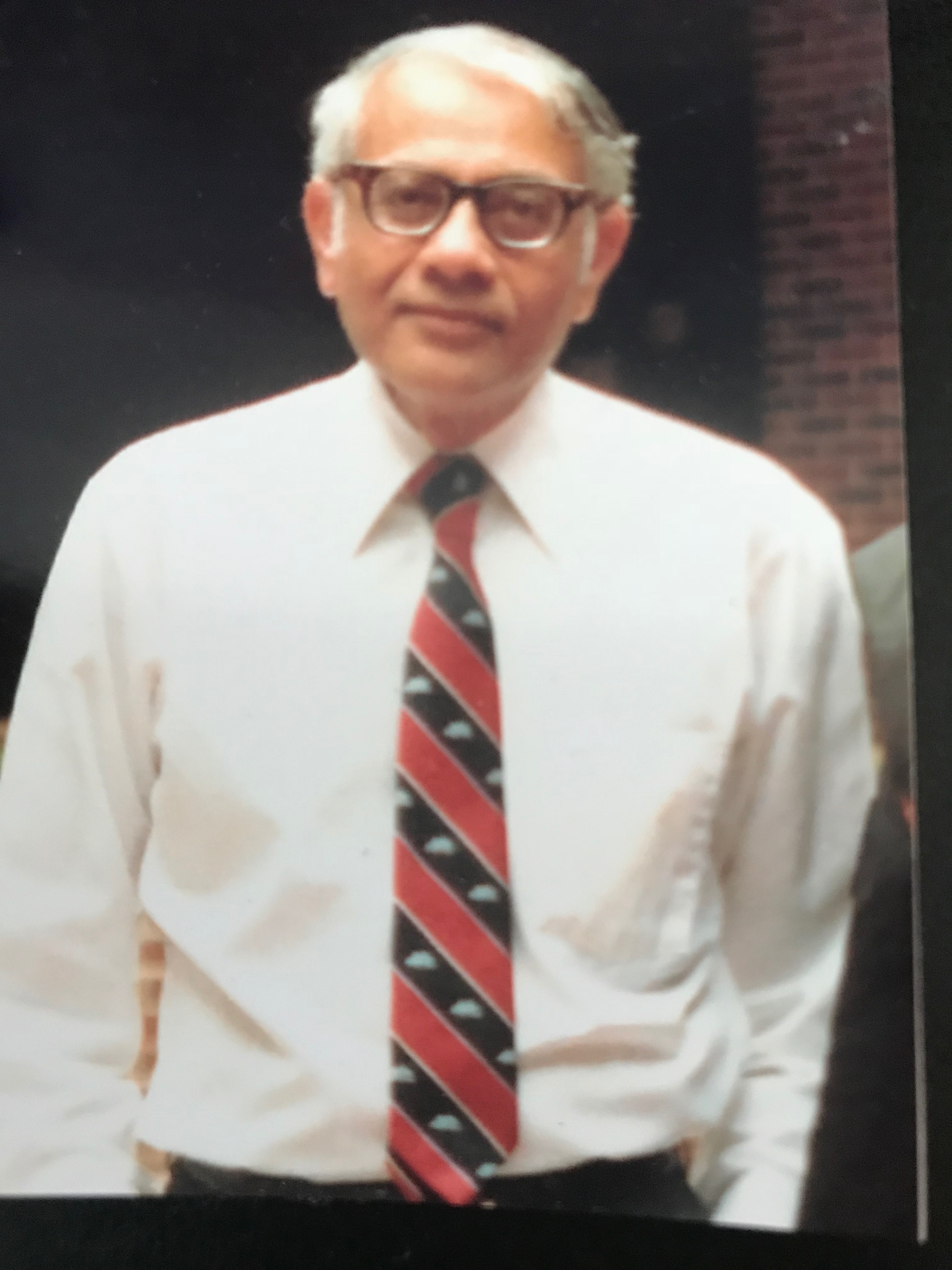 GS Maddala